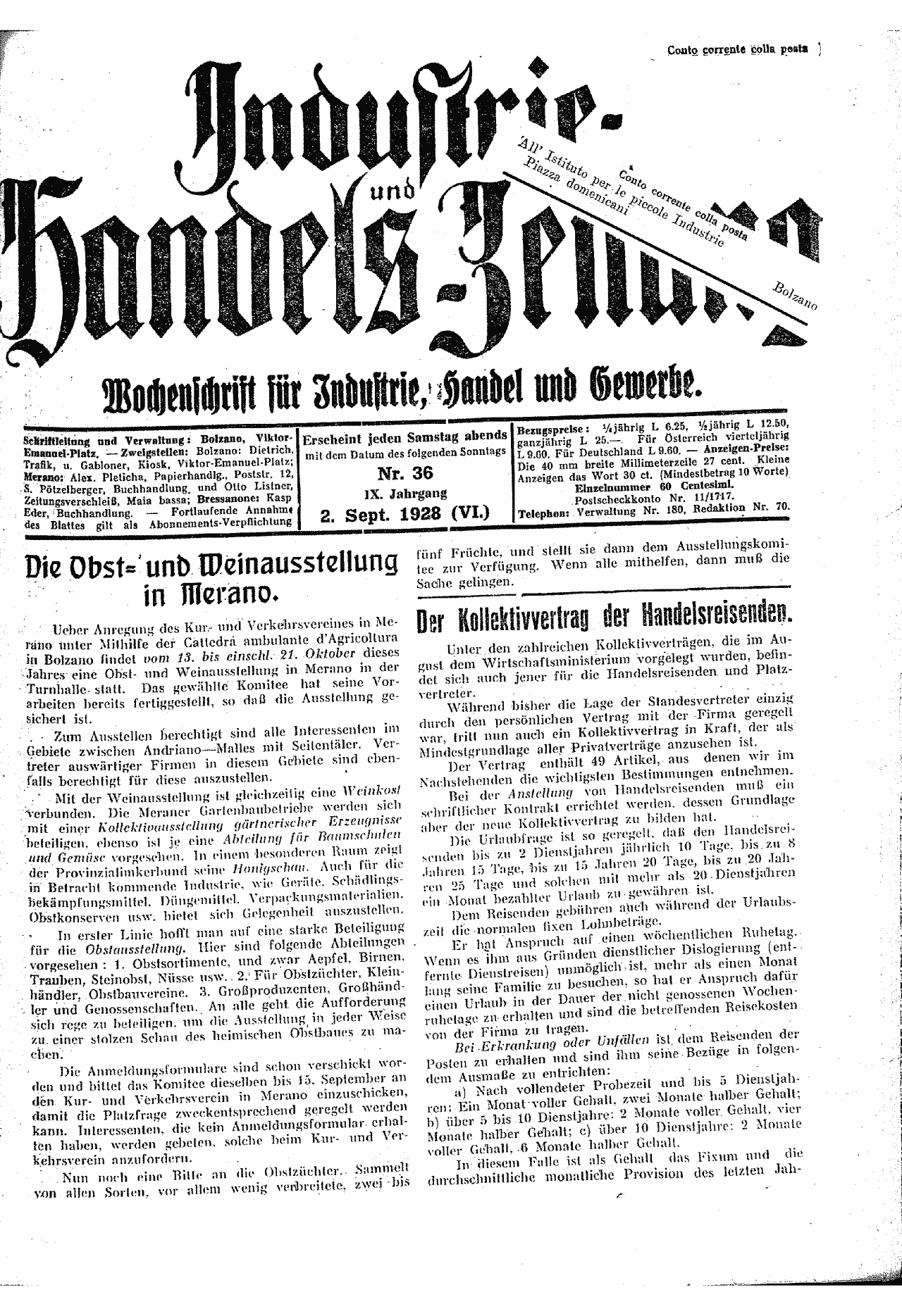 The South Tyrol's Industrie- und Handels-Zeitung from 1928